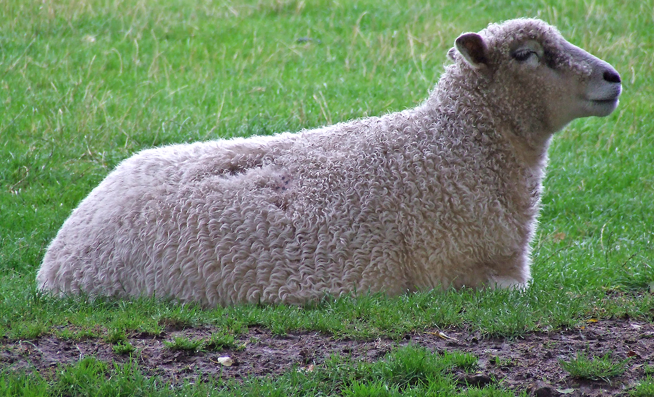 A Cotswold sheep relaxing.